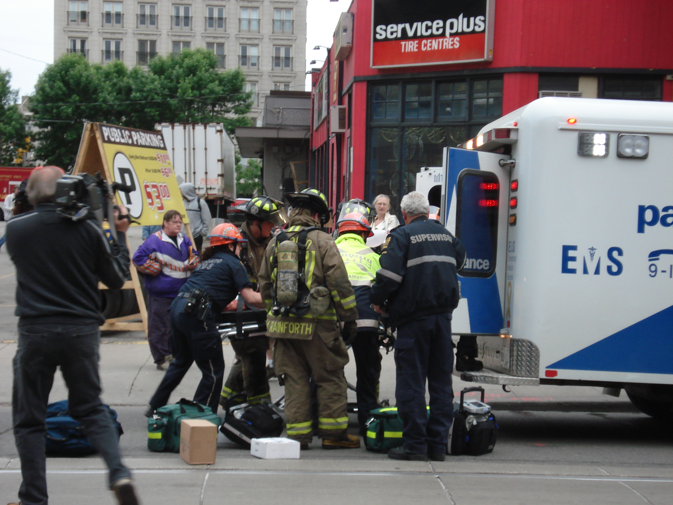 Toronto EMS staff work on a victim of a fire at Queen just West of Jarvis